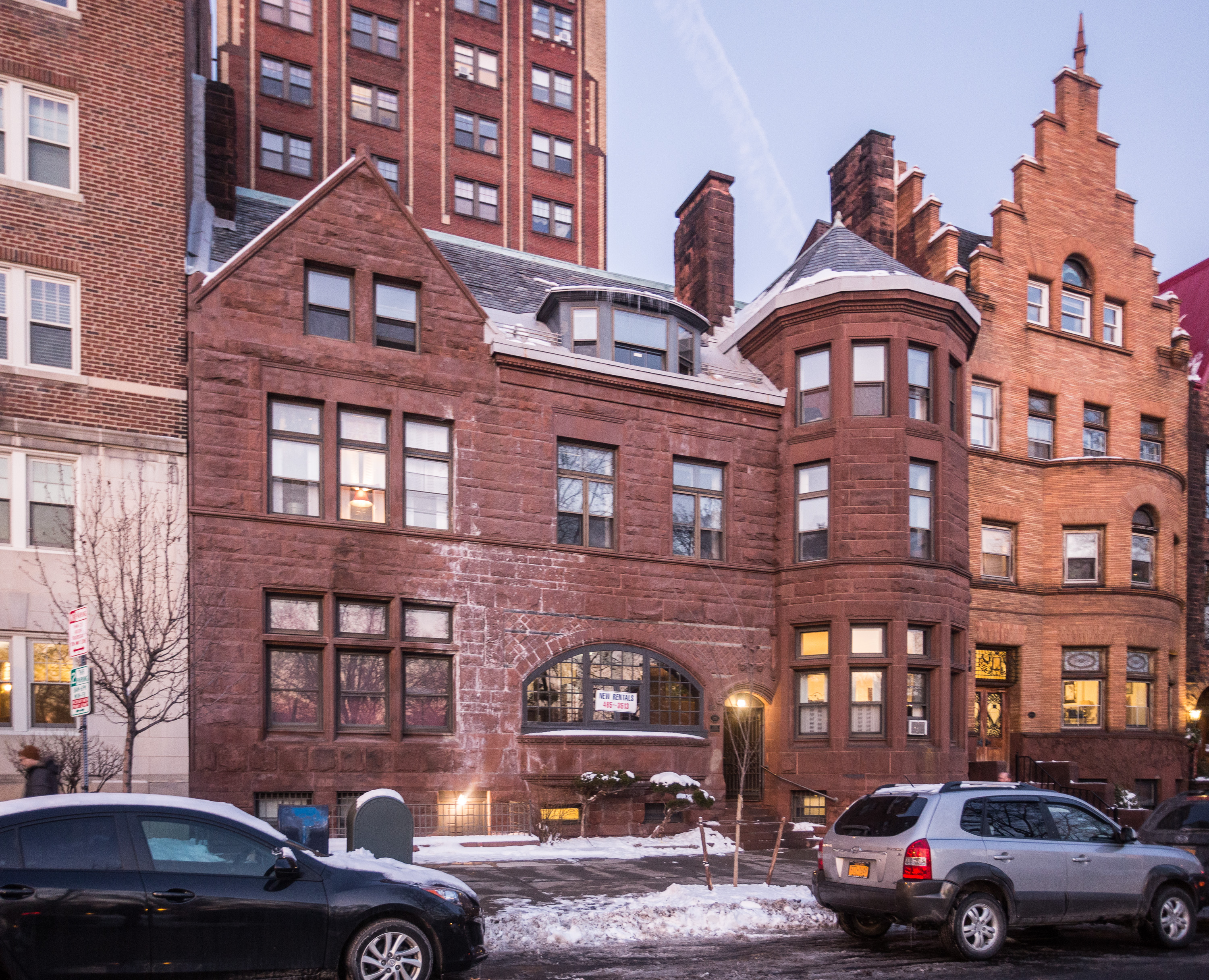 State Street Tower Apartments. 397 State Street, Albany, NY. Designed by H.H. Richardson as a town house for Grange Sard Jr..